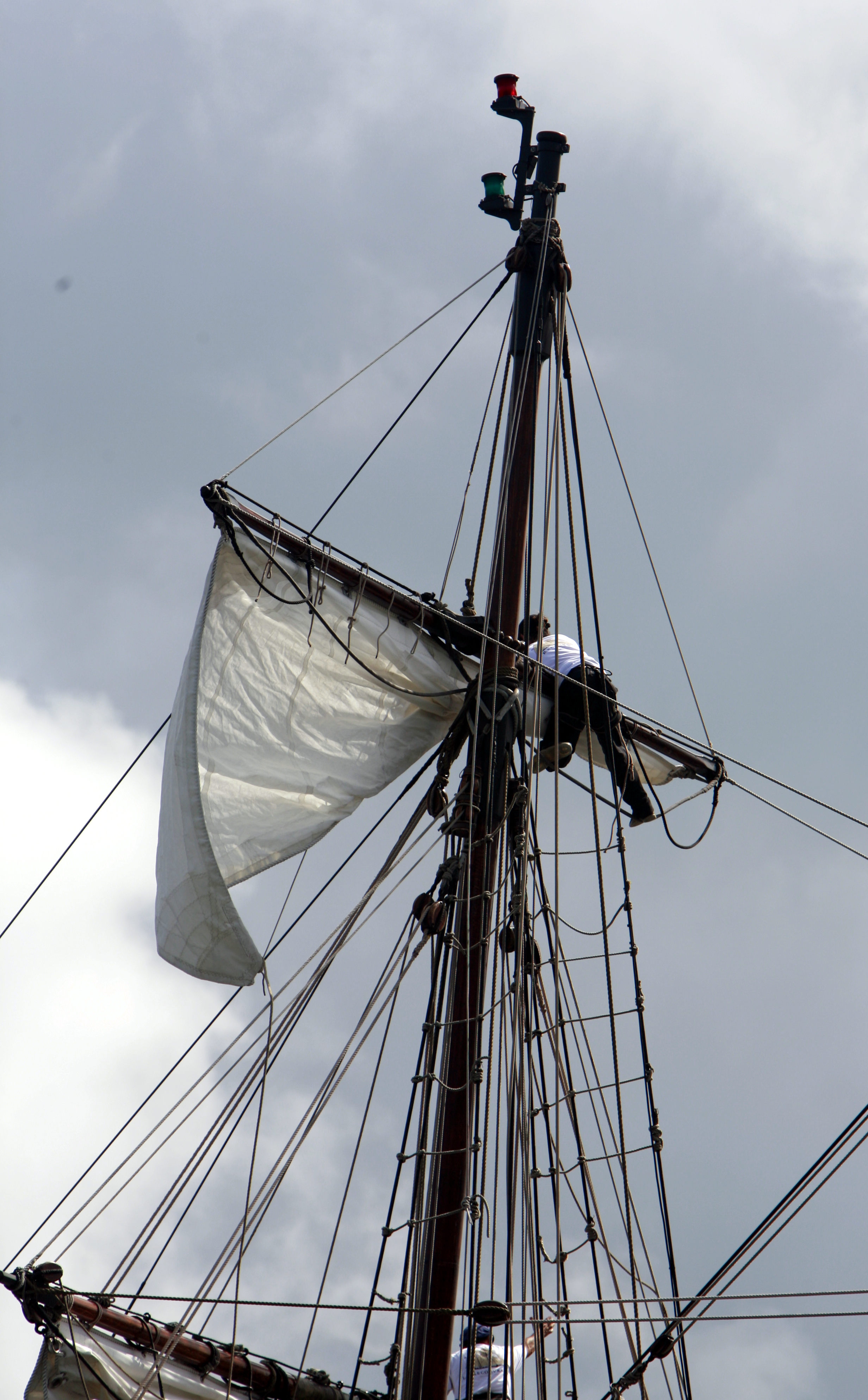 Aviso-schooner Recouvrance in Brest harbour.